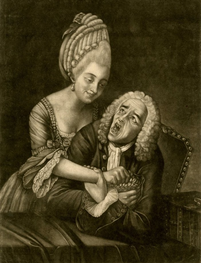 "Old Gripus plundered by his young wife", a mezzotint by Philip Dawe, published by John Bowles on 2 April 1773 © Trustees of the British Museum